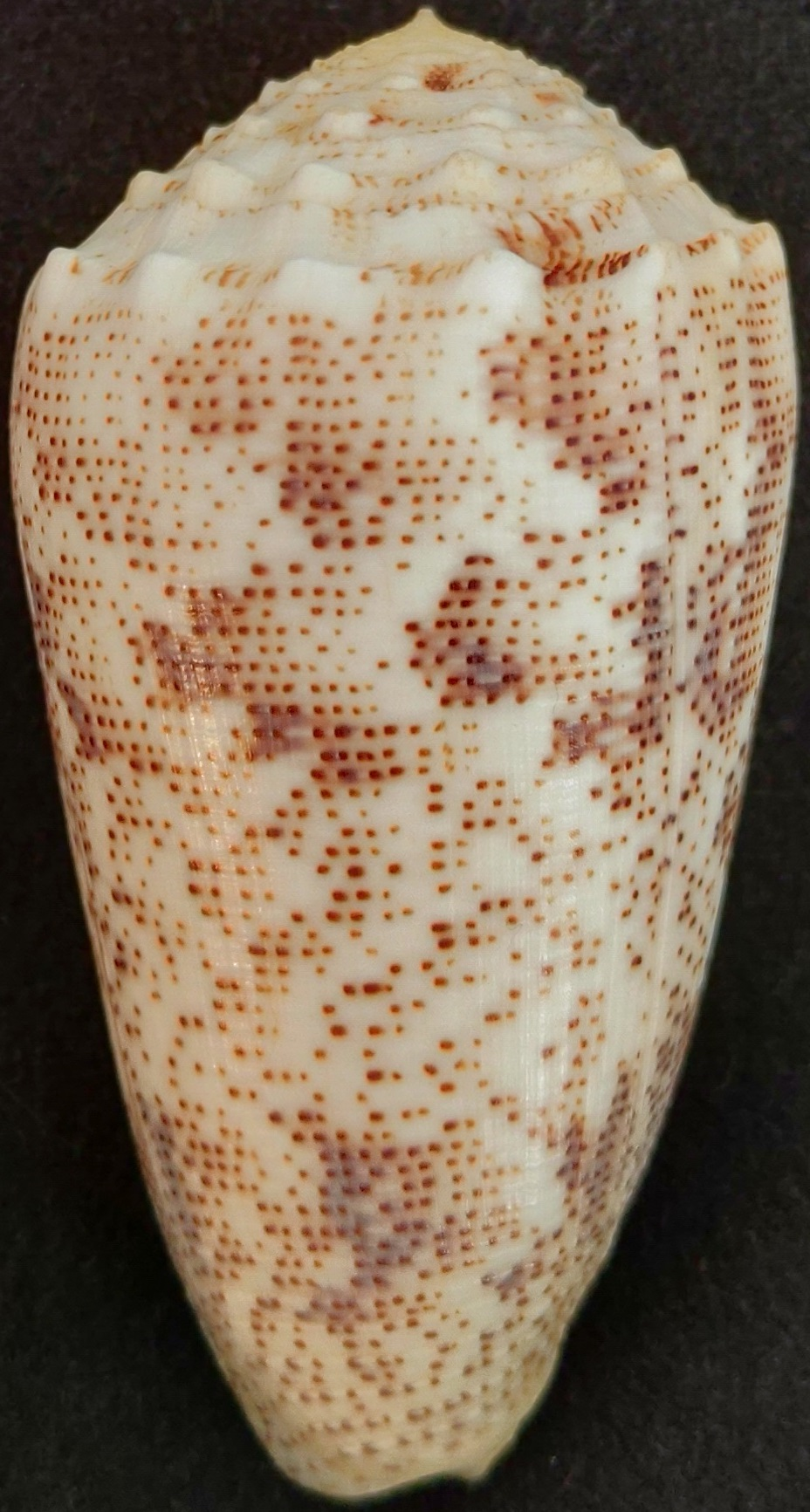 Conus Arenatus Back